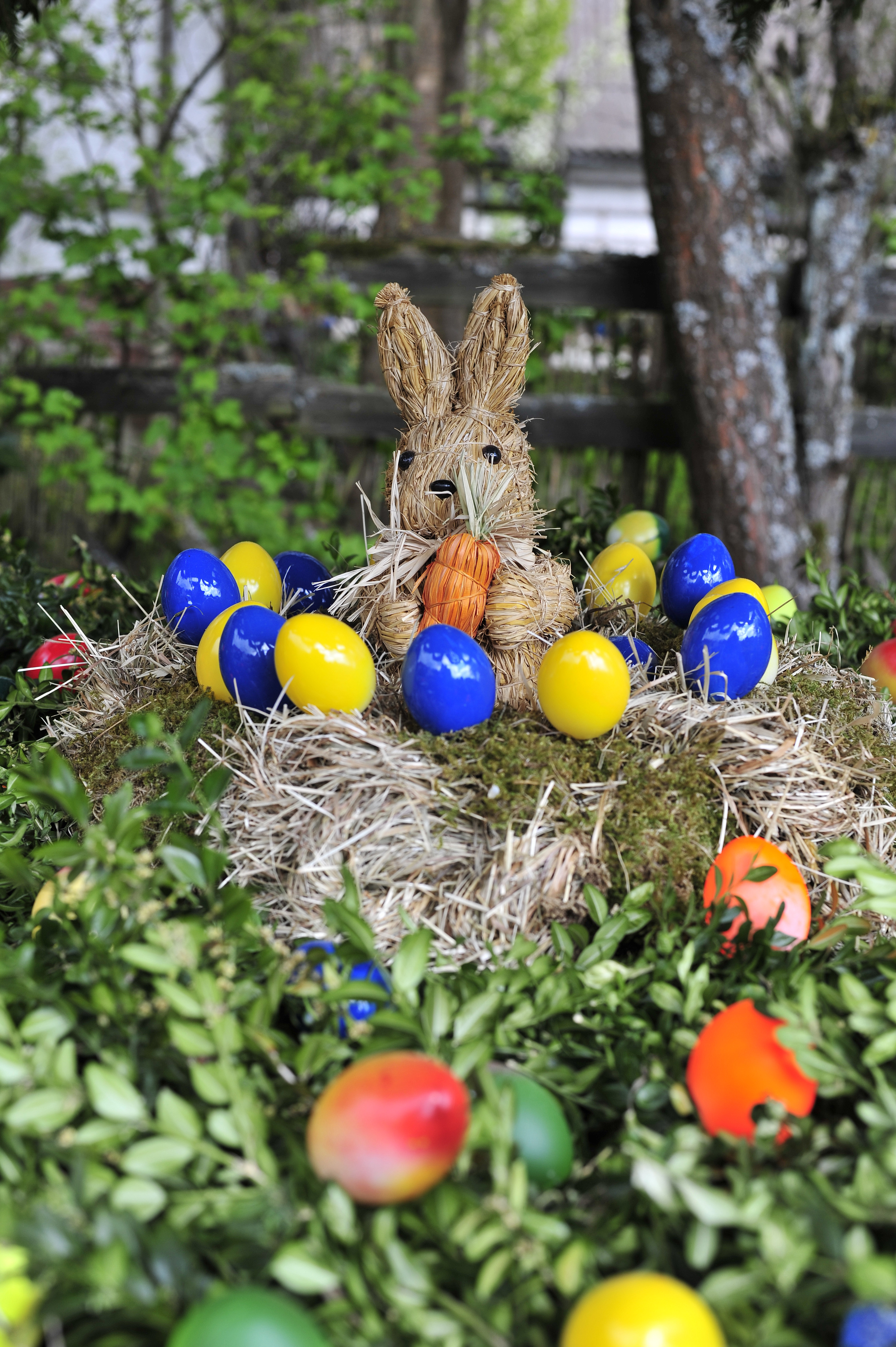 Bunny doll with chocolate easter eggs in private garden at Easter